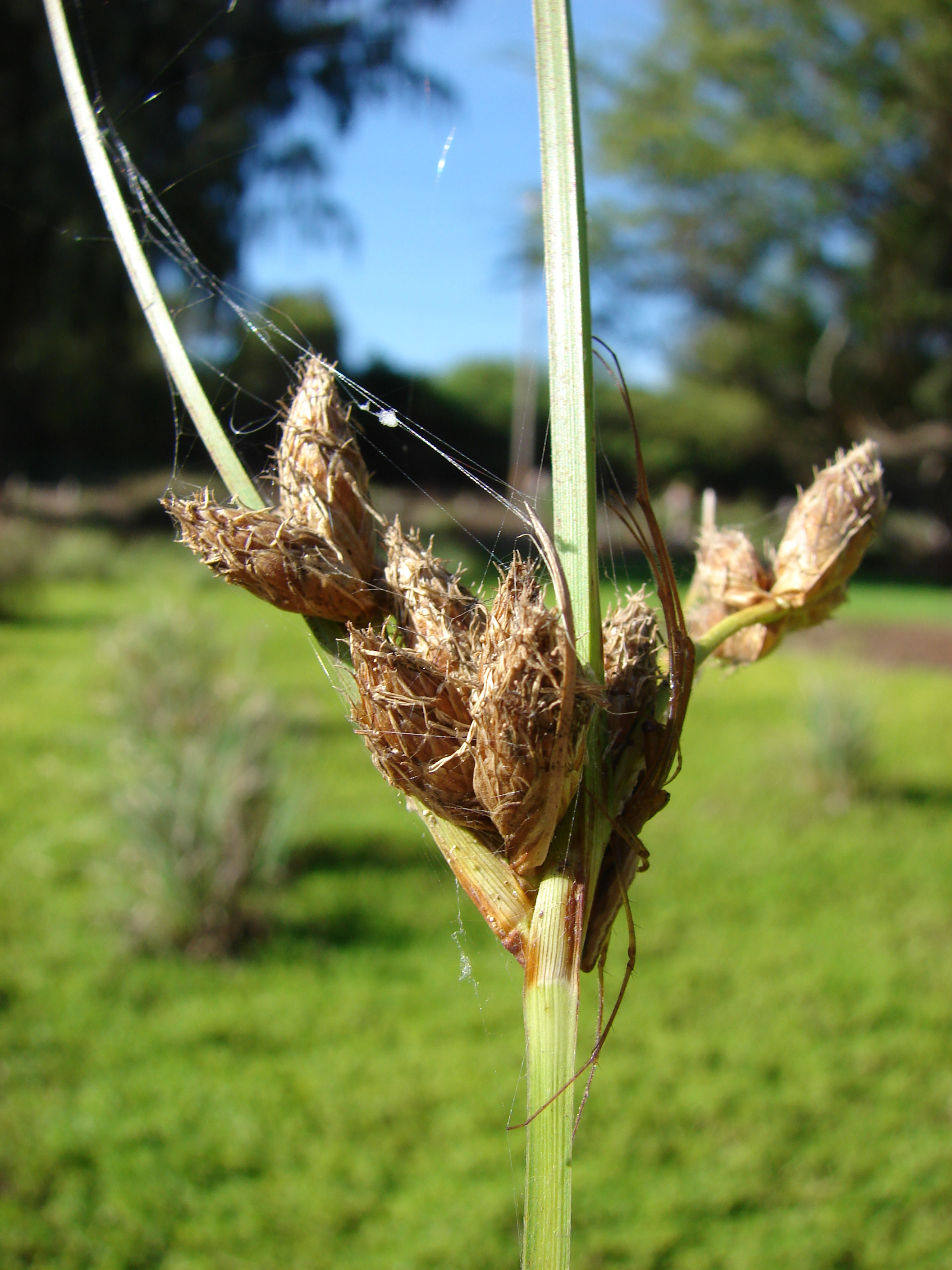 Bolboschoenus maritimus (seedheads). Location: Maui, Kanaha Beach